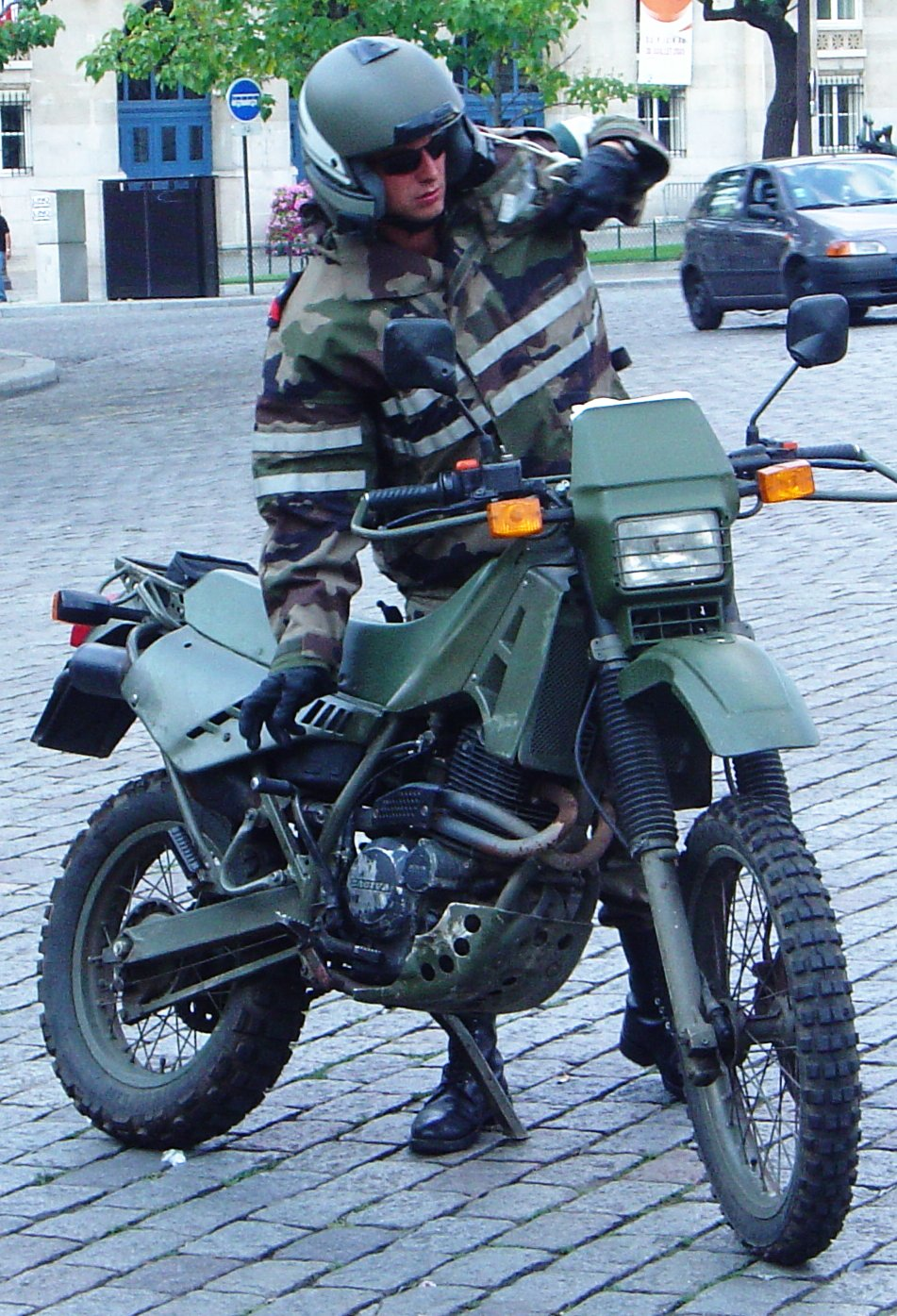 French Army biker (convoy organization)